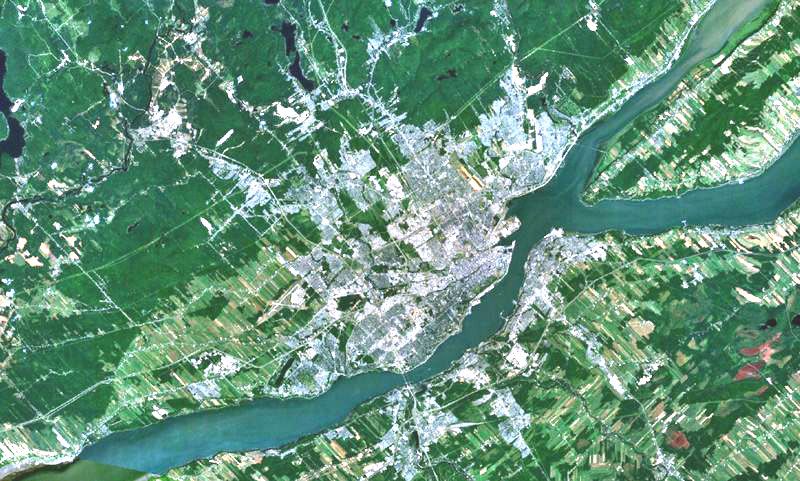 Quebec city on the north shore of St. Lawrence river, Lévis on the south shore and Orleans Island in the river.